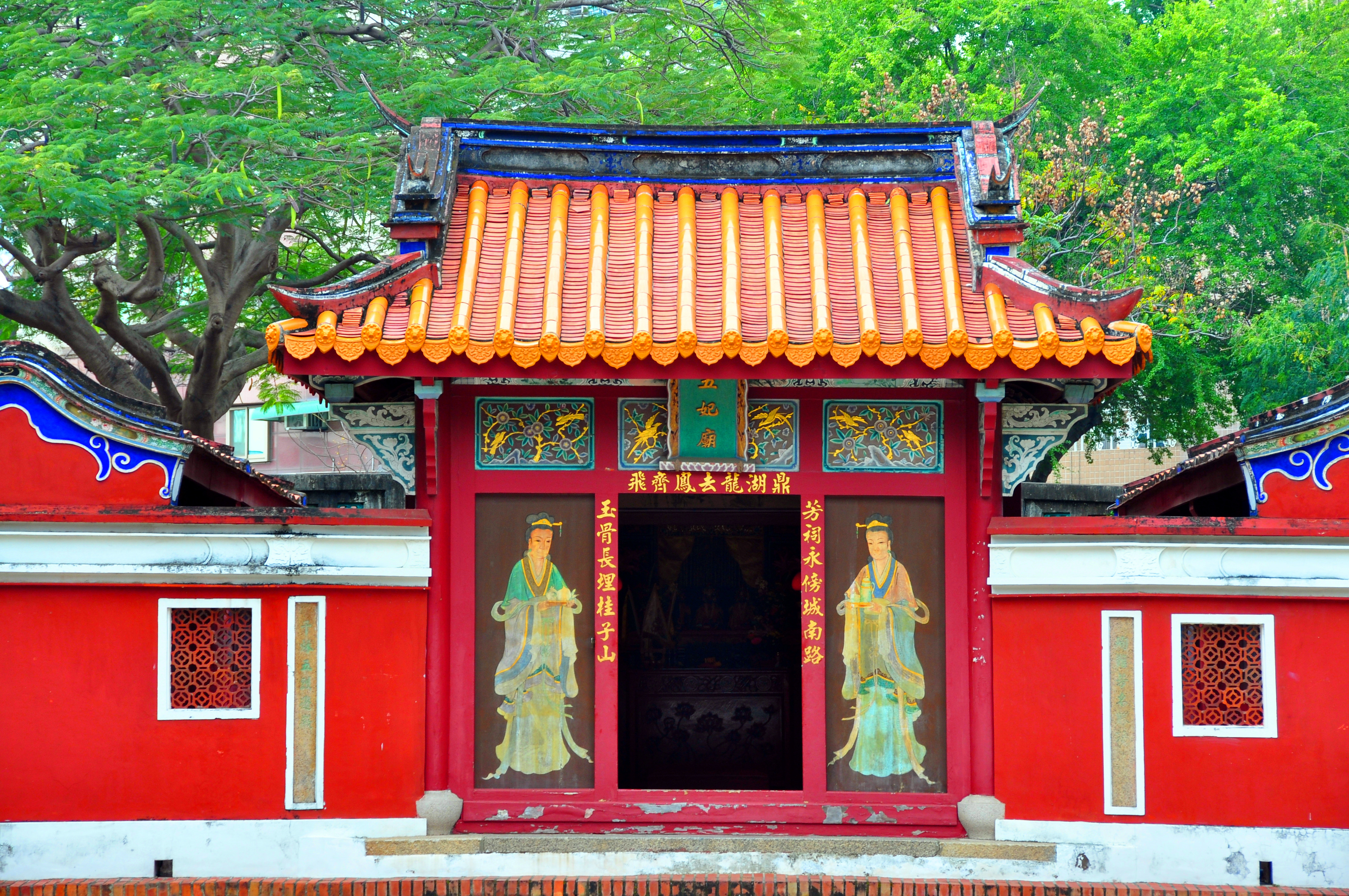 ConcubinesTemple of the Five Concubines a monument located in Tainan City ofTaiwan.